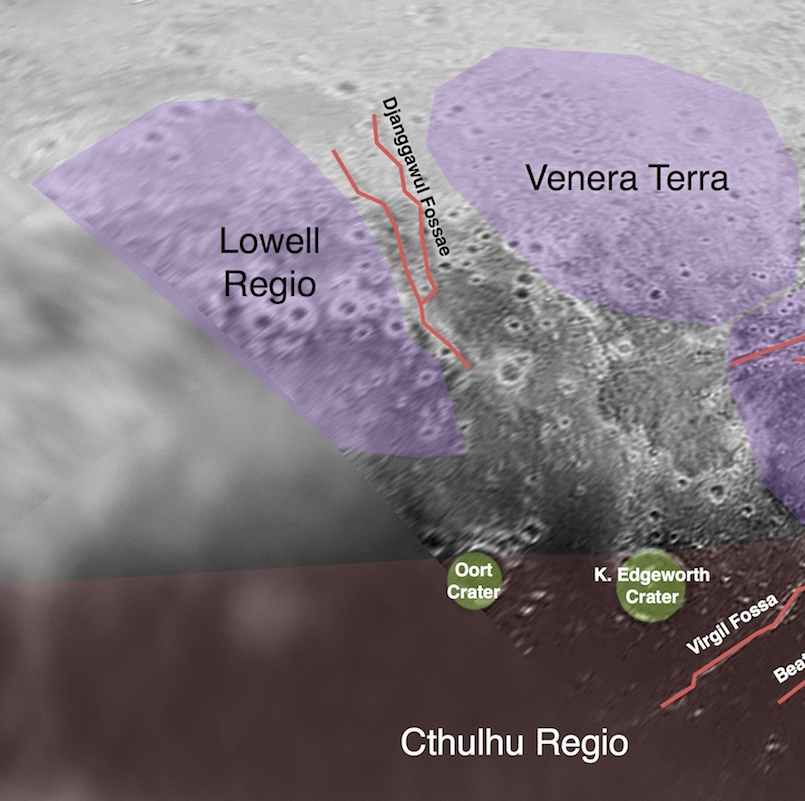 A cropped version of File:Pluto-Map-Annotated.jpg to show the section of Pluto containing Lowell Regio